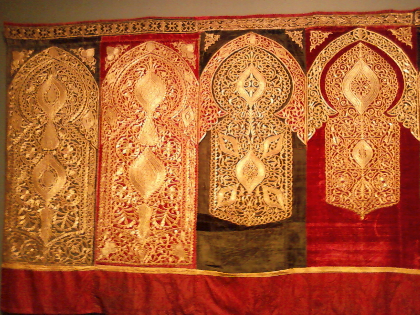 19th century Moroccan ceremonial hanging (haiti) of silk velvet from Fez